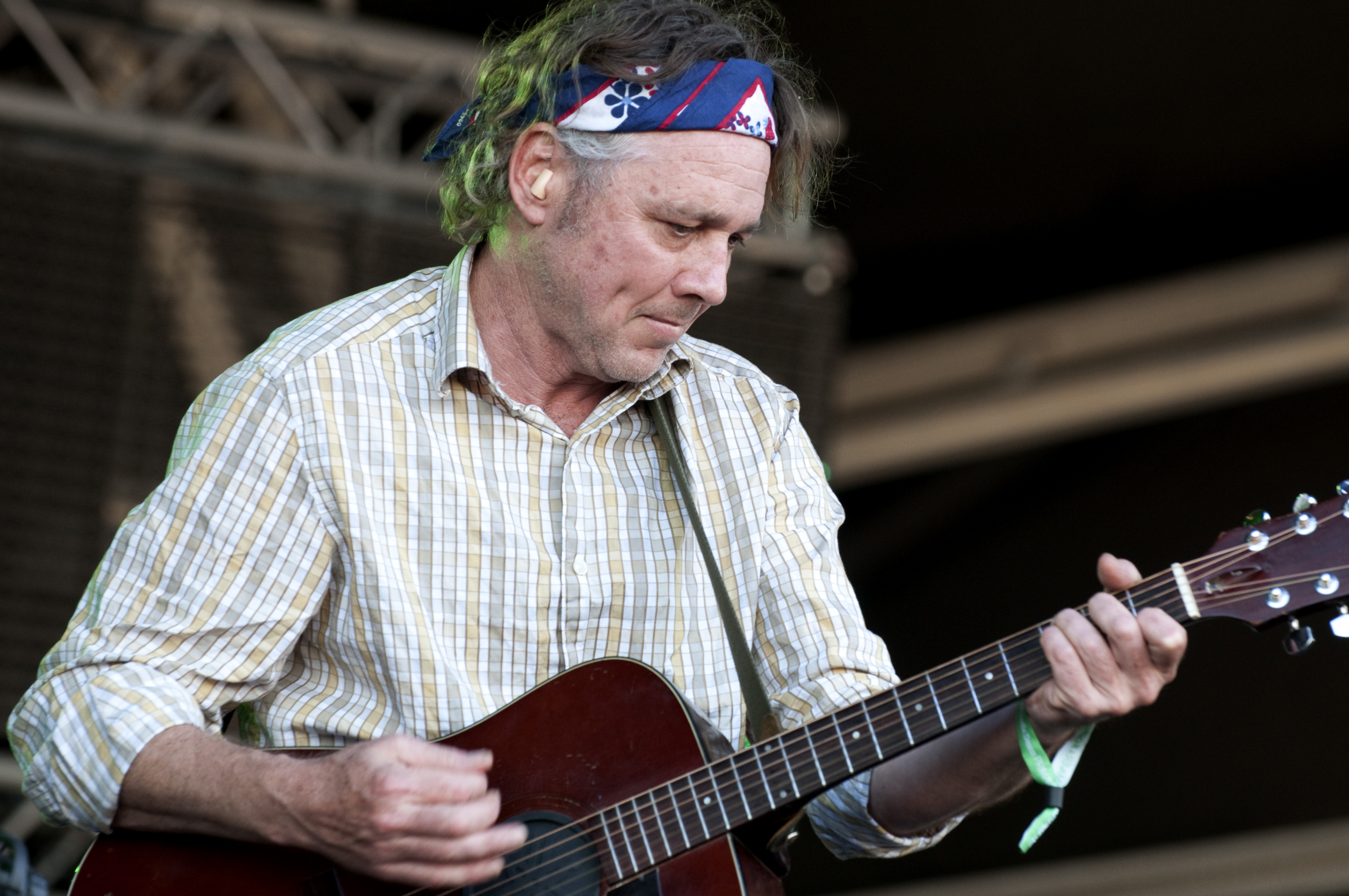 The Jayhawks